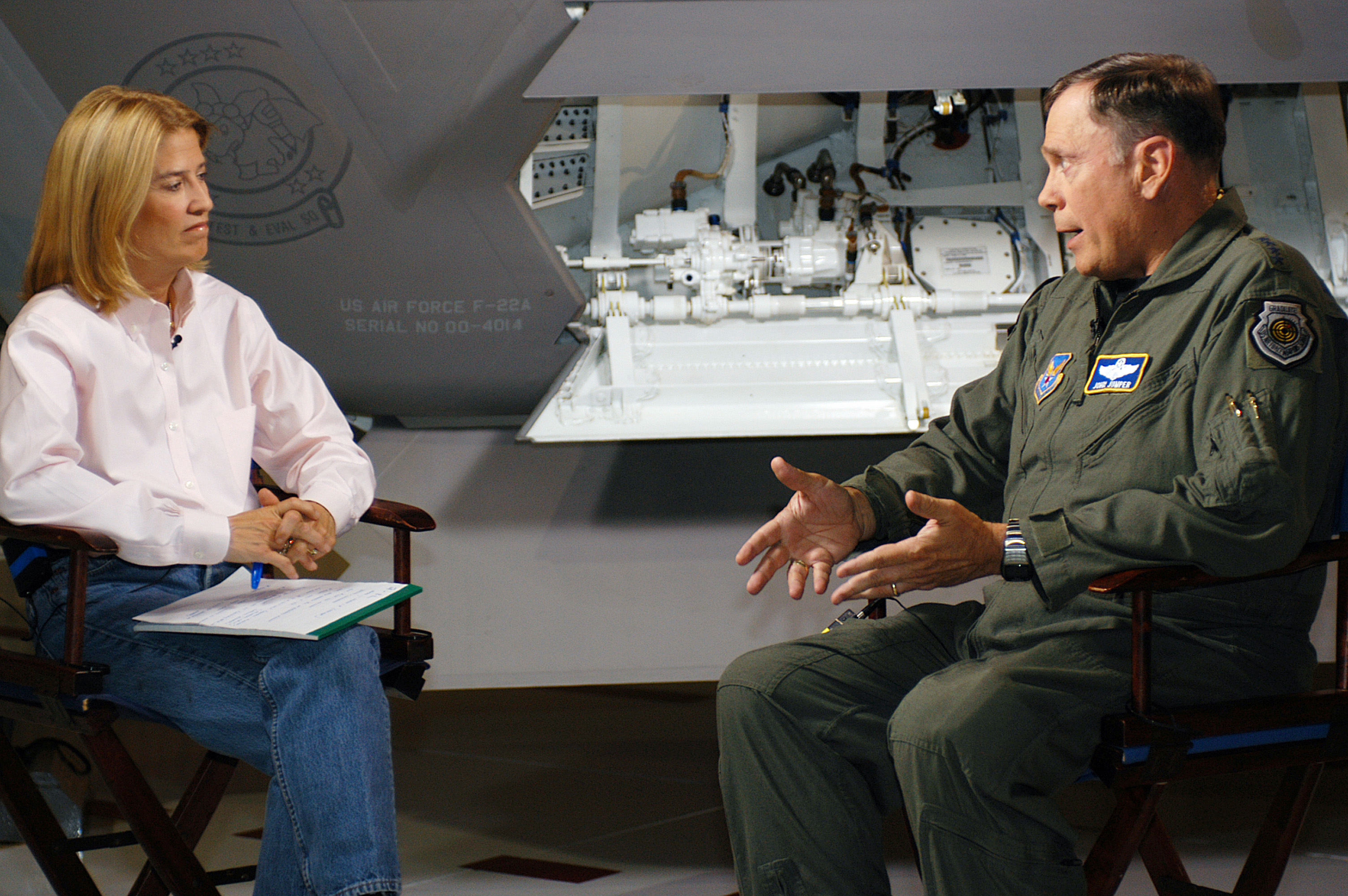 US Air Force (USAF) Air Force Chief of Staff (CS), General (GEN) John P. Jumper, explains the F/A-22 Raptor fighter aircraft capabilities and its role in fighting future wars to Fox National News Anchor, Greta Van Susteren, during an interview for the Fox News Channel special edition of "On the Record with Greta Van Susteren."